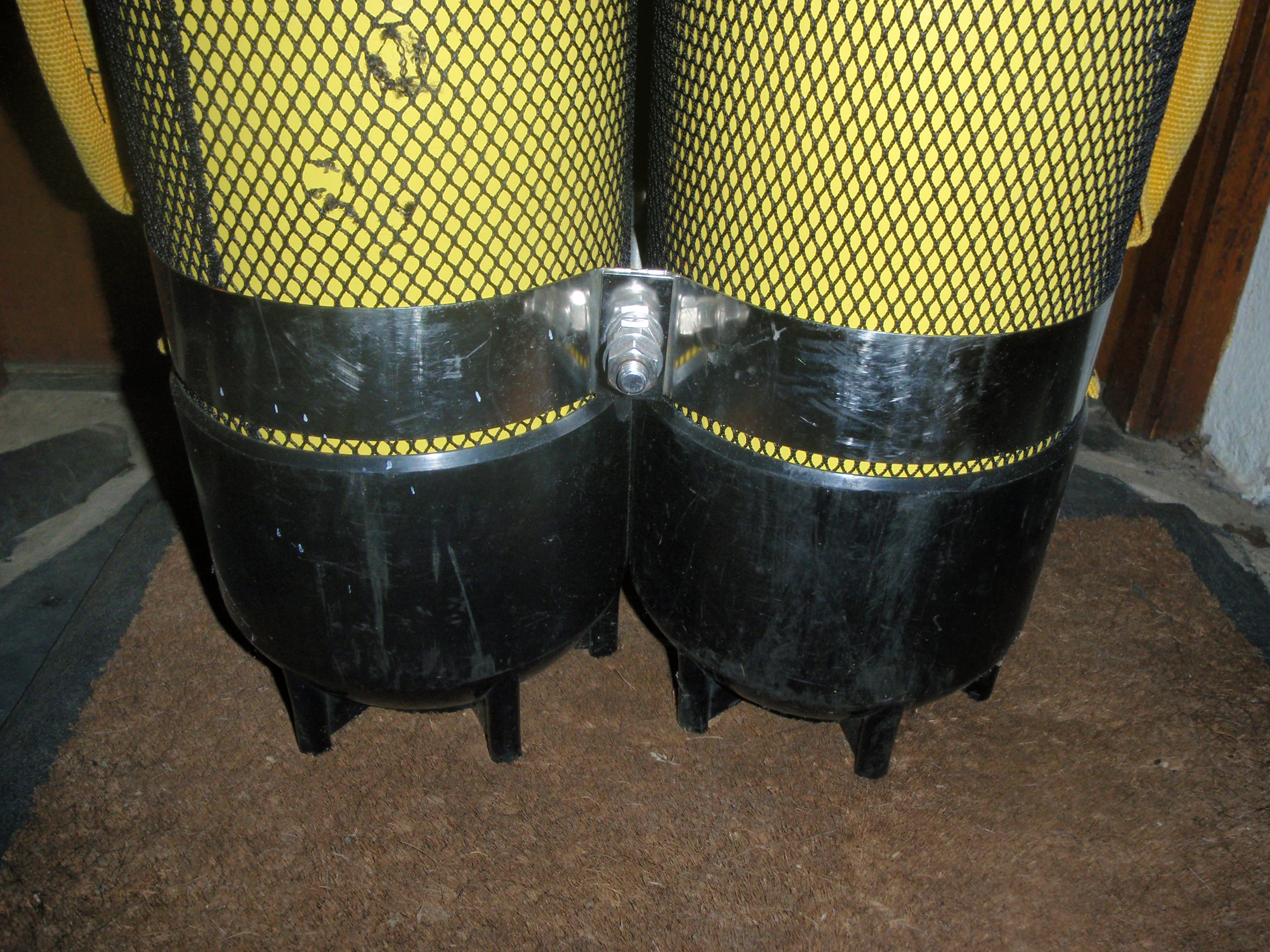 Tank band and boots on twin steel 12l cylinders